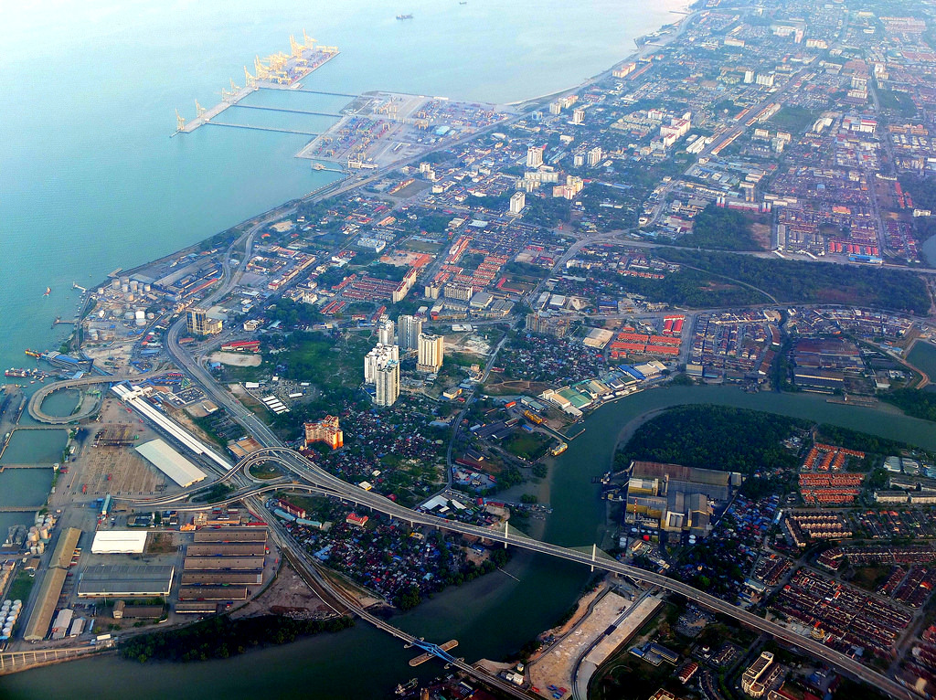 Aerial view of the town of Butterworth in Penang, Malaysia